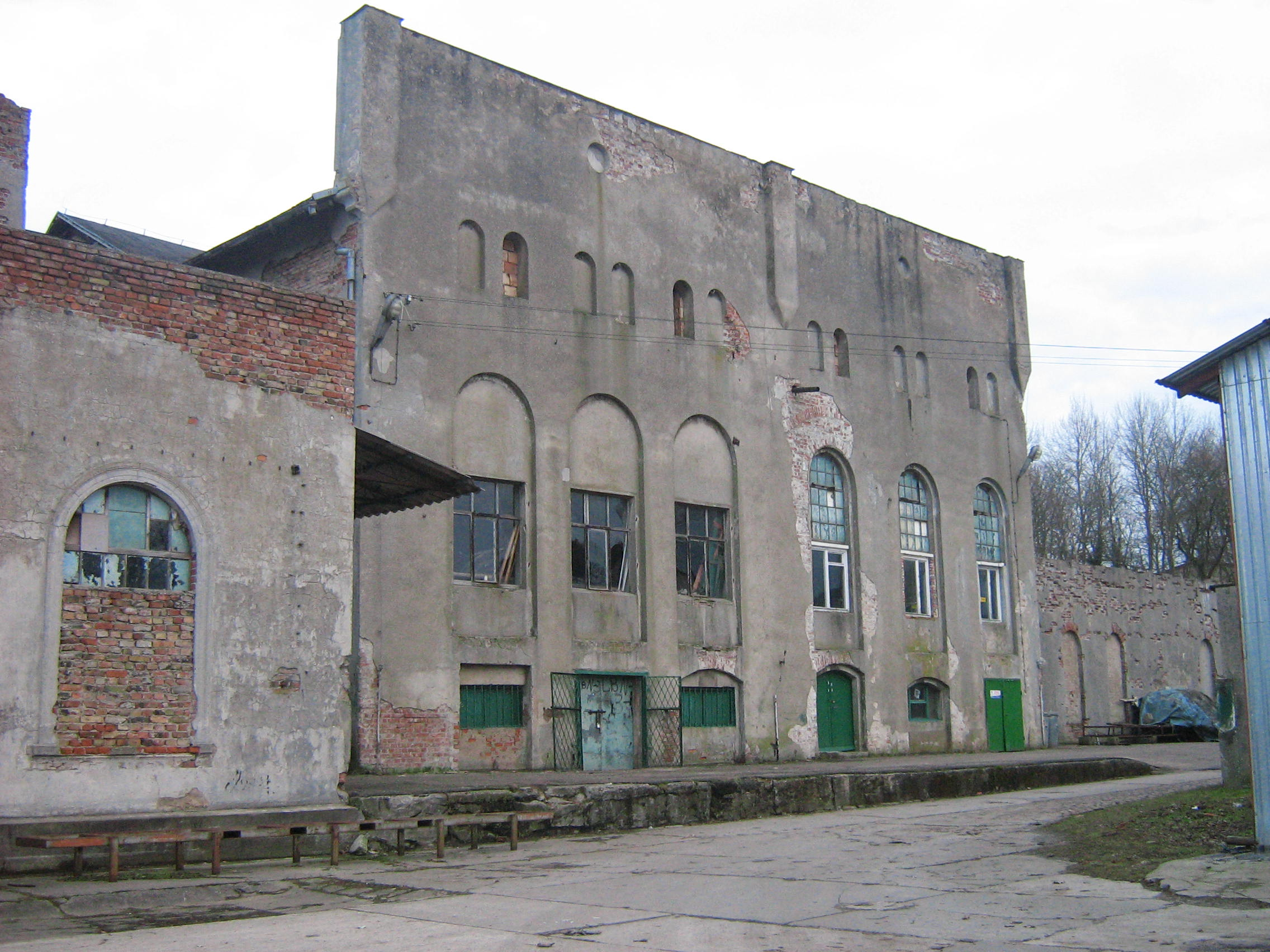 Remnant of the old German cement factory